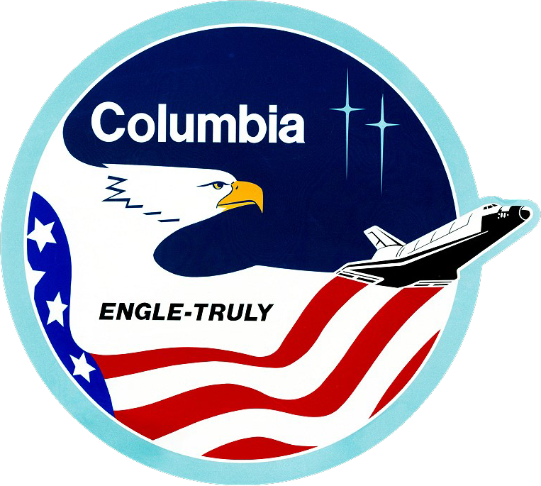 Mission patch for STS-2 Space Shuttle mission